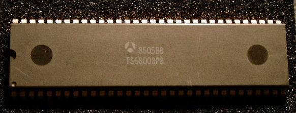 MC68000 from Motorola (CPU MC68000 7,16 MHz, 1 MB RAM. Later versions were uploaded by Afrank99 at de.wikipedia.)